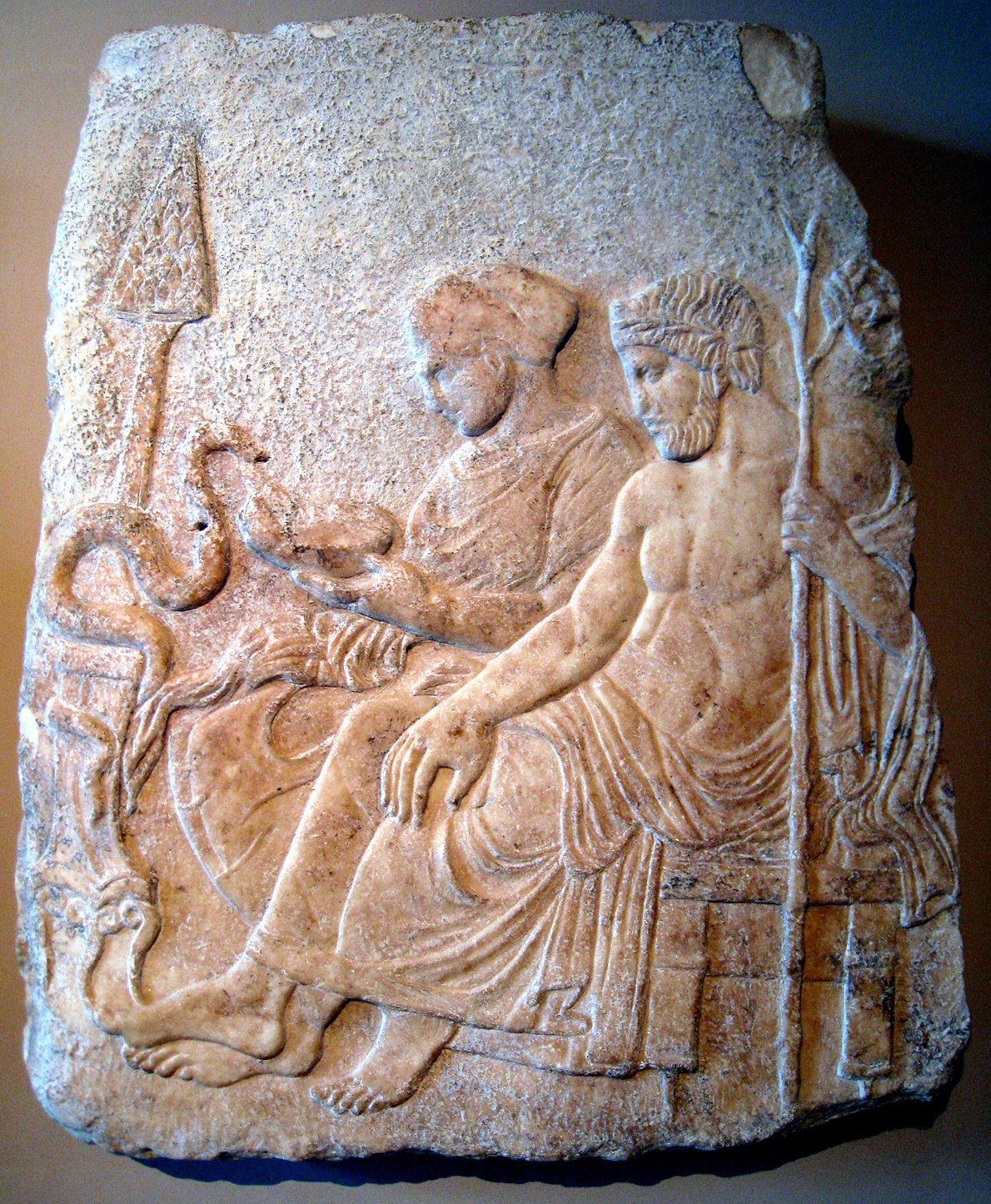 Marble relief of Asclepius and his daughter Hygieia. From Therme, Greece, end of the 5th century BC. Istanbul Archaeological Museums.